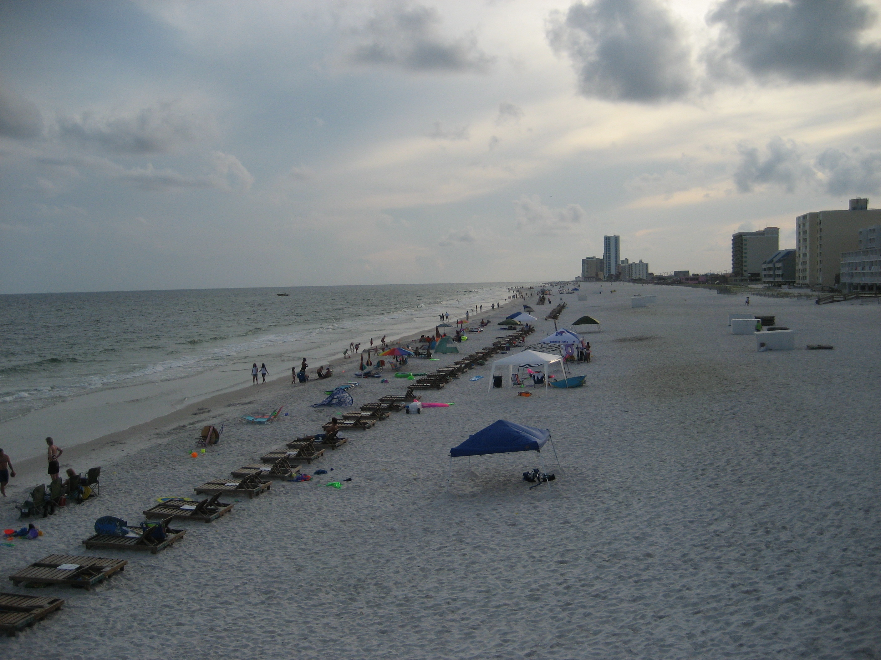 Gulf Shores, Alabama. Beach.